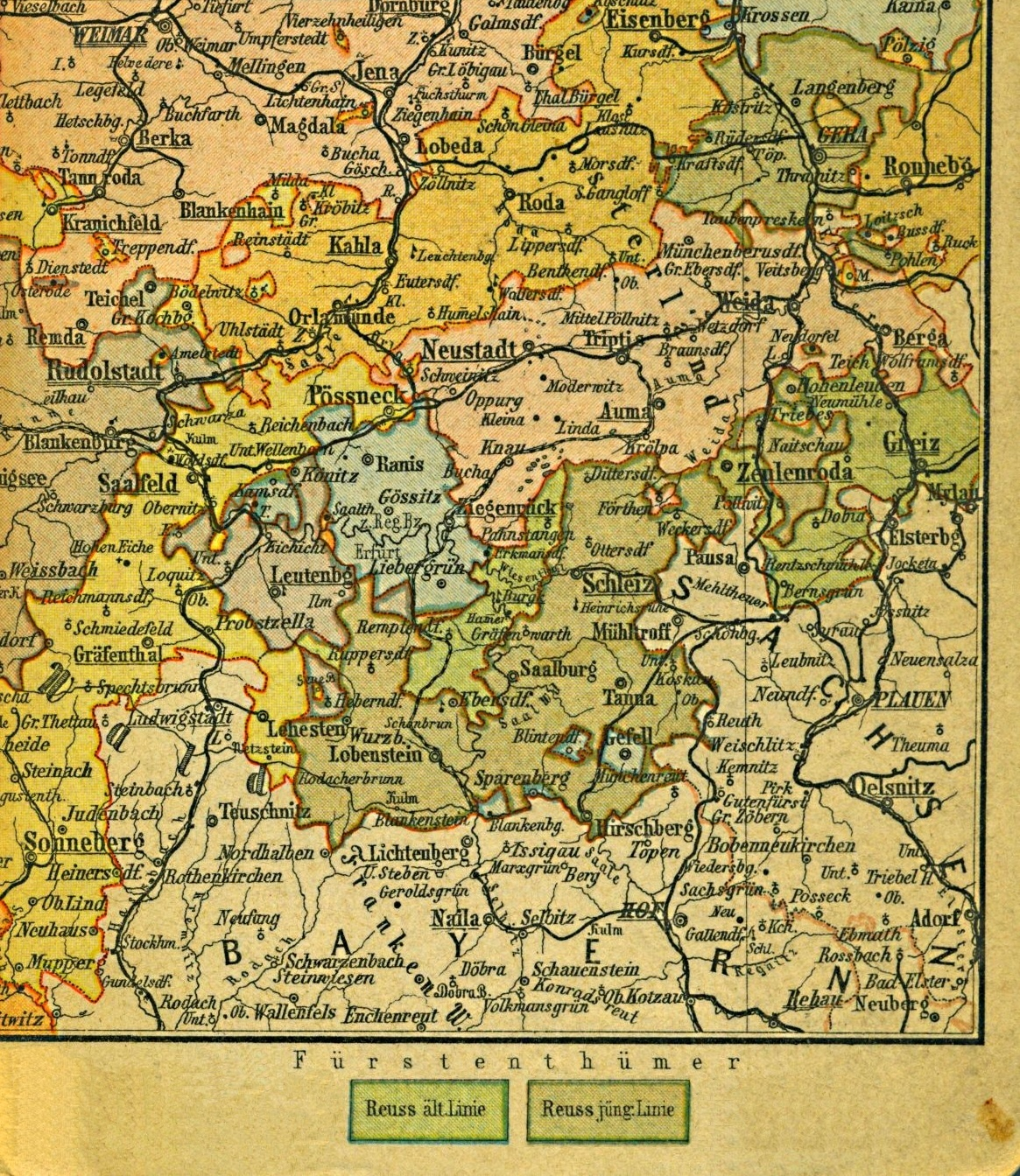 Thuringia. Political Overview 1894.